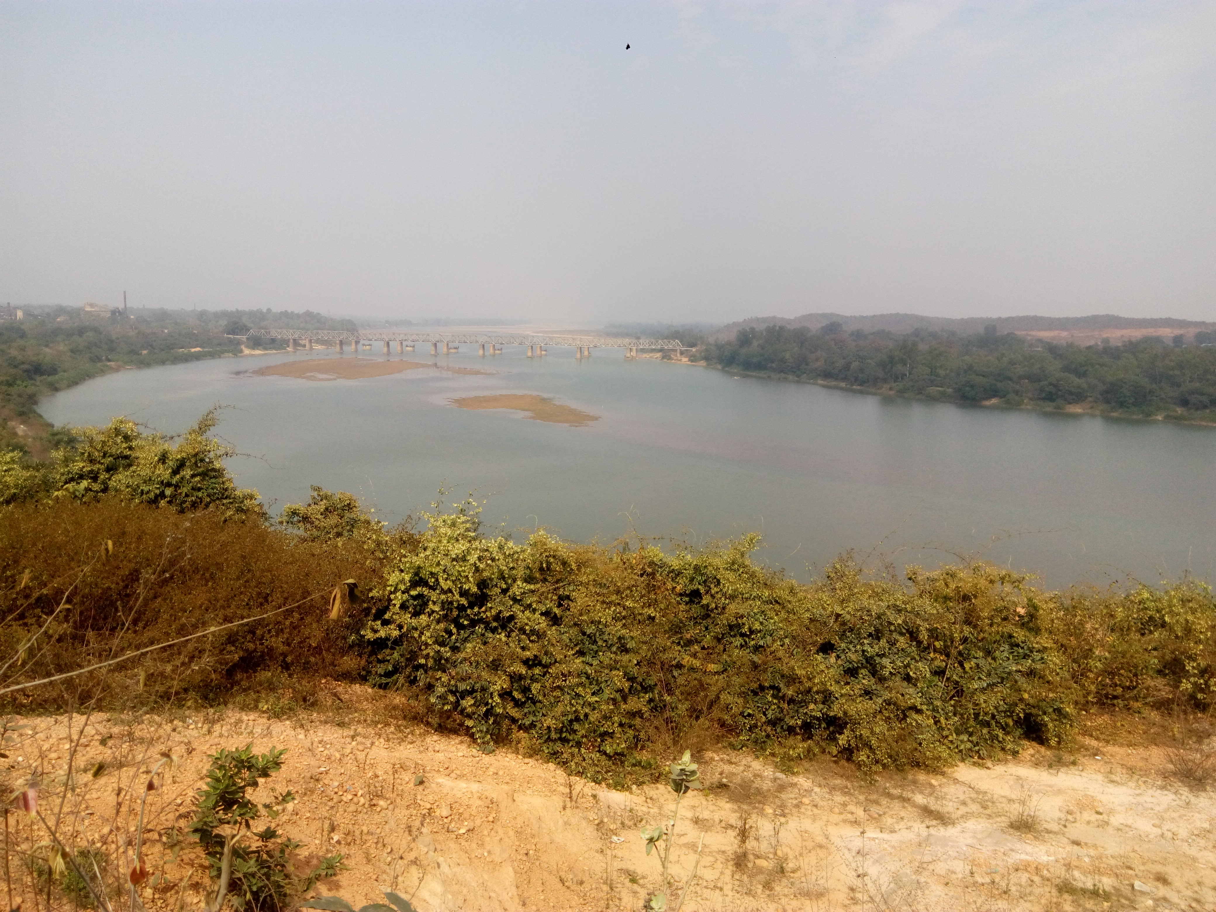 Nice view of IB river